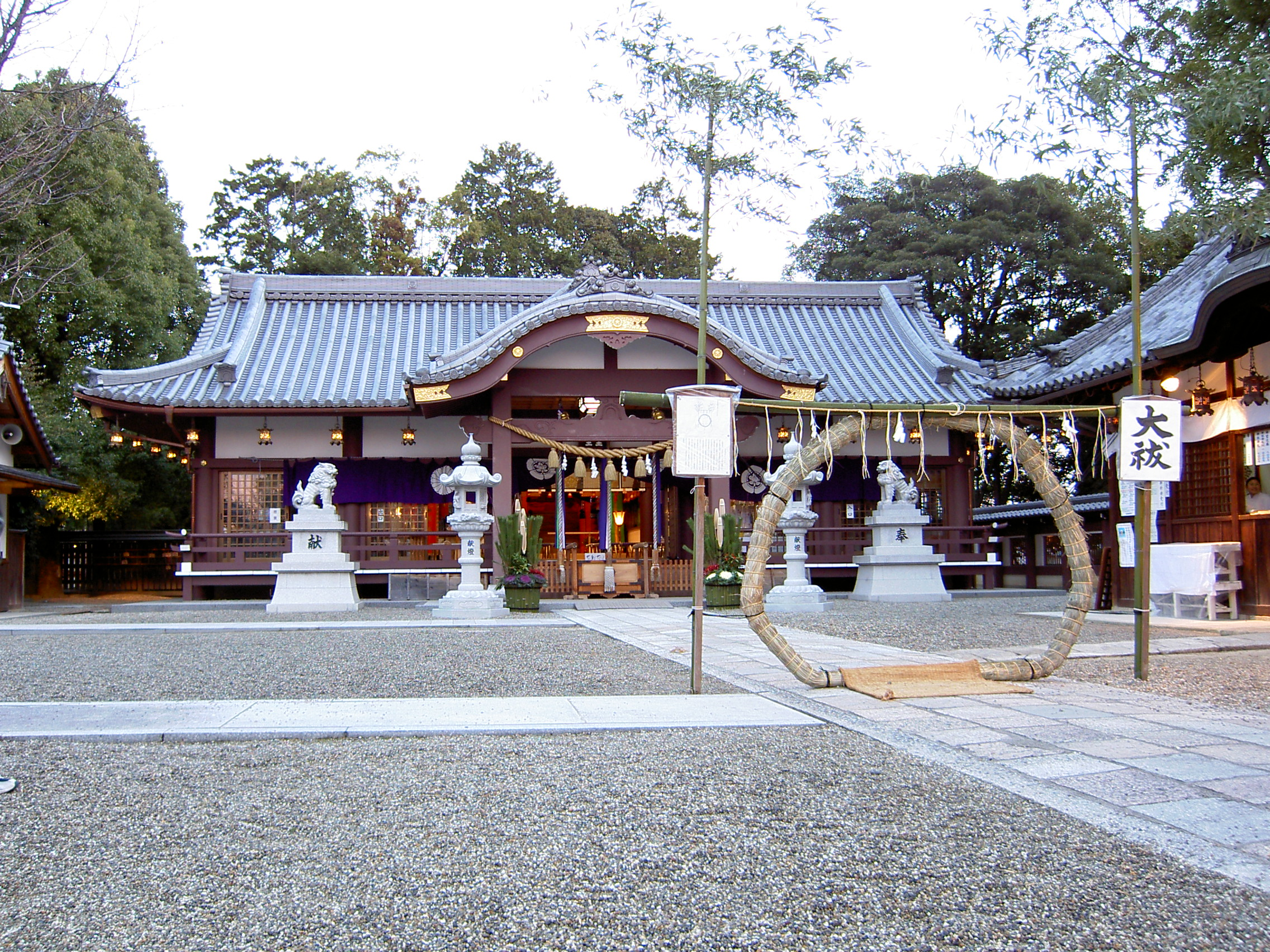 Kudarao shrine. 1-68, Nakamiya-Nishinocho, Hirakata-shi, Osaka Japan.